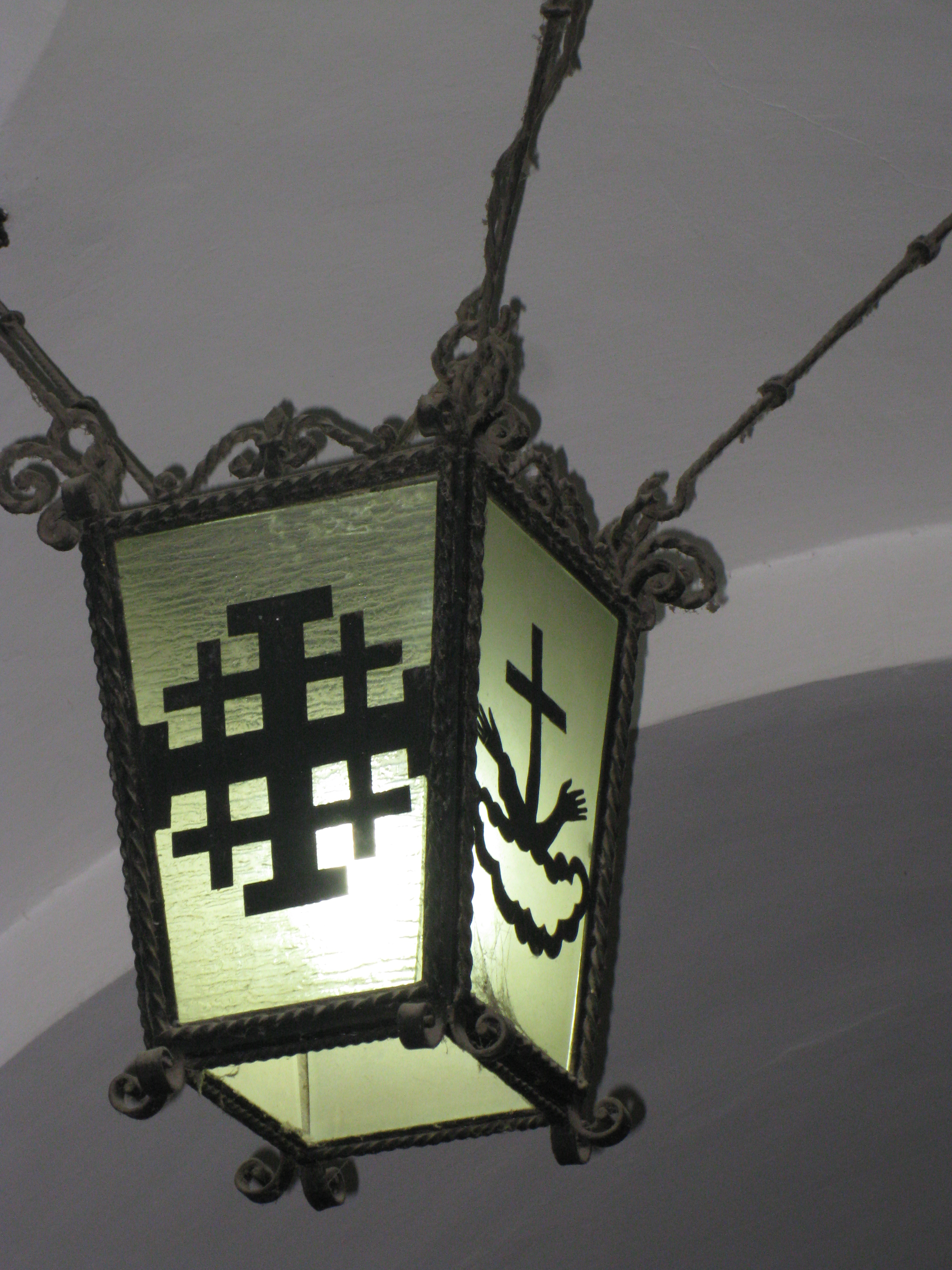 Jerusalem, The Christian Quarter - San Salvatore compound